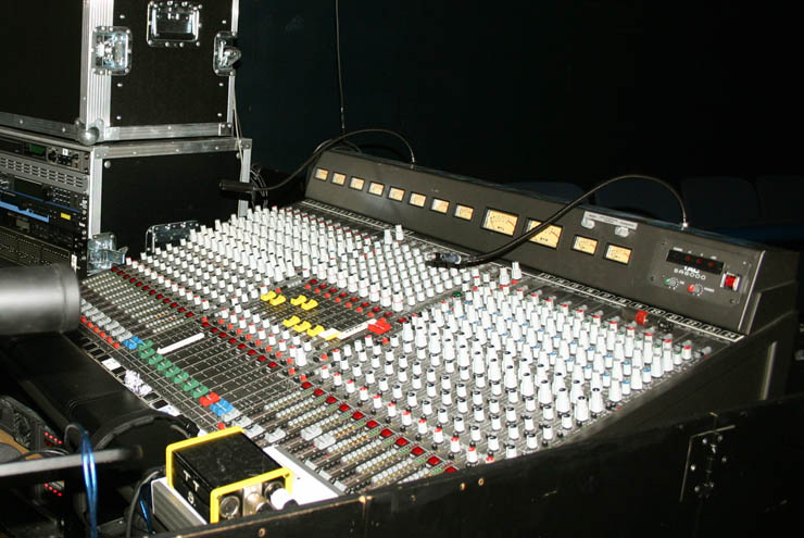 mixing console used for live music or theatre performances